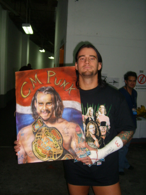 CM Punk with a portrait done by a fanatic. Backstage at the Colosseum General Rumiñahui in Quito, Ecuador on February 12, 2008 on SmackDown / ECW Tour 2008 Road to Wrestlemania.